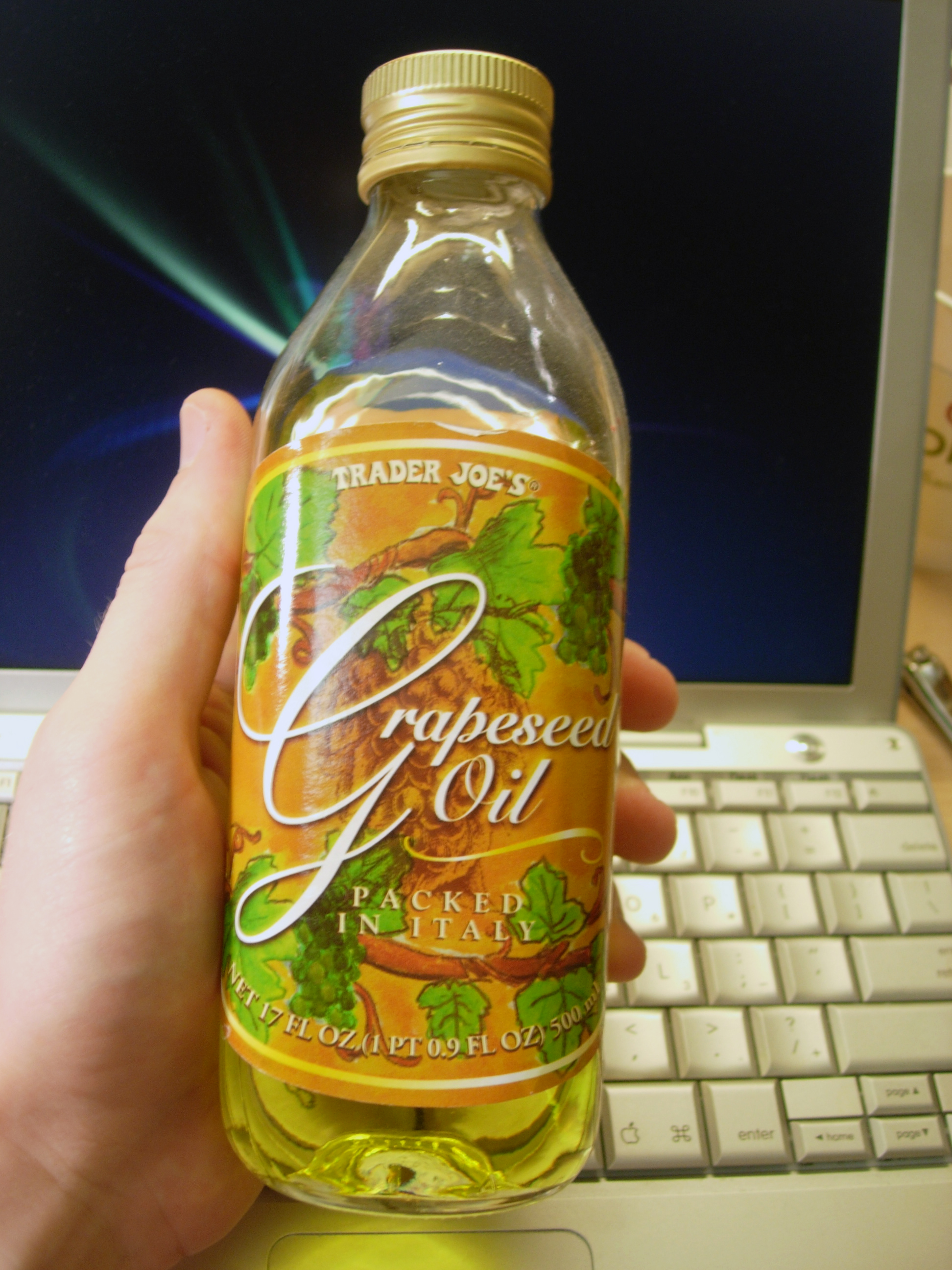 A bottle of Trader Joe's brand grape seed oil. Photo taken in the United States, with an E5200 digital camera.